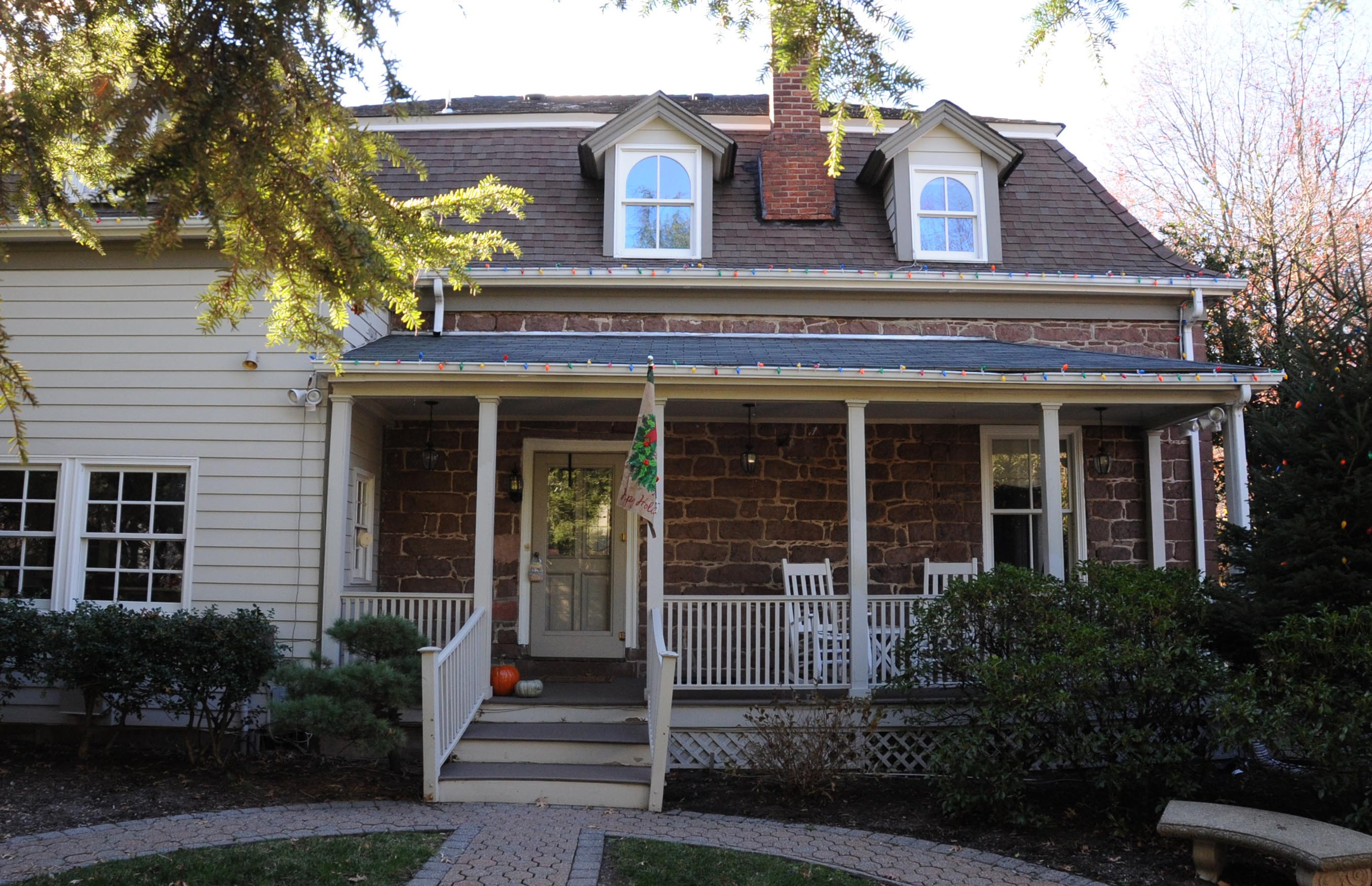 AKA RUTAN-TERHUNE-BIDWELL HOUSE; JACOBUS RUTAN WAS A FARMER OF THIS LAND FROM 1794-1795; THE ZABRISKE FAMILY ACQUIRED THE HOUSE IN 1800 ; JOHN BIDWELL ACQUIRED THE HOUSE IN 1860 AND FARMED THE LAND. THE REASON FOR THE TERHUNE NAME IS NOT GIVEN ON THE BERGEN COUNTY HISTORICAL MARKER